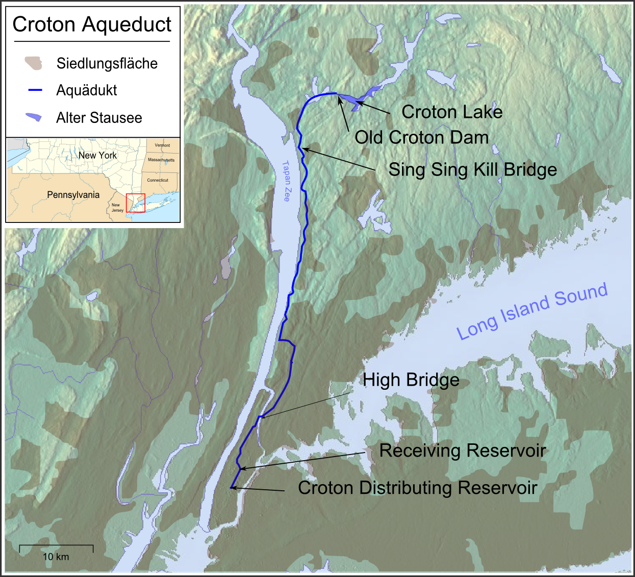 General map of the Croton Aqueduct constructed for New York City (Language: German)